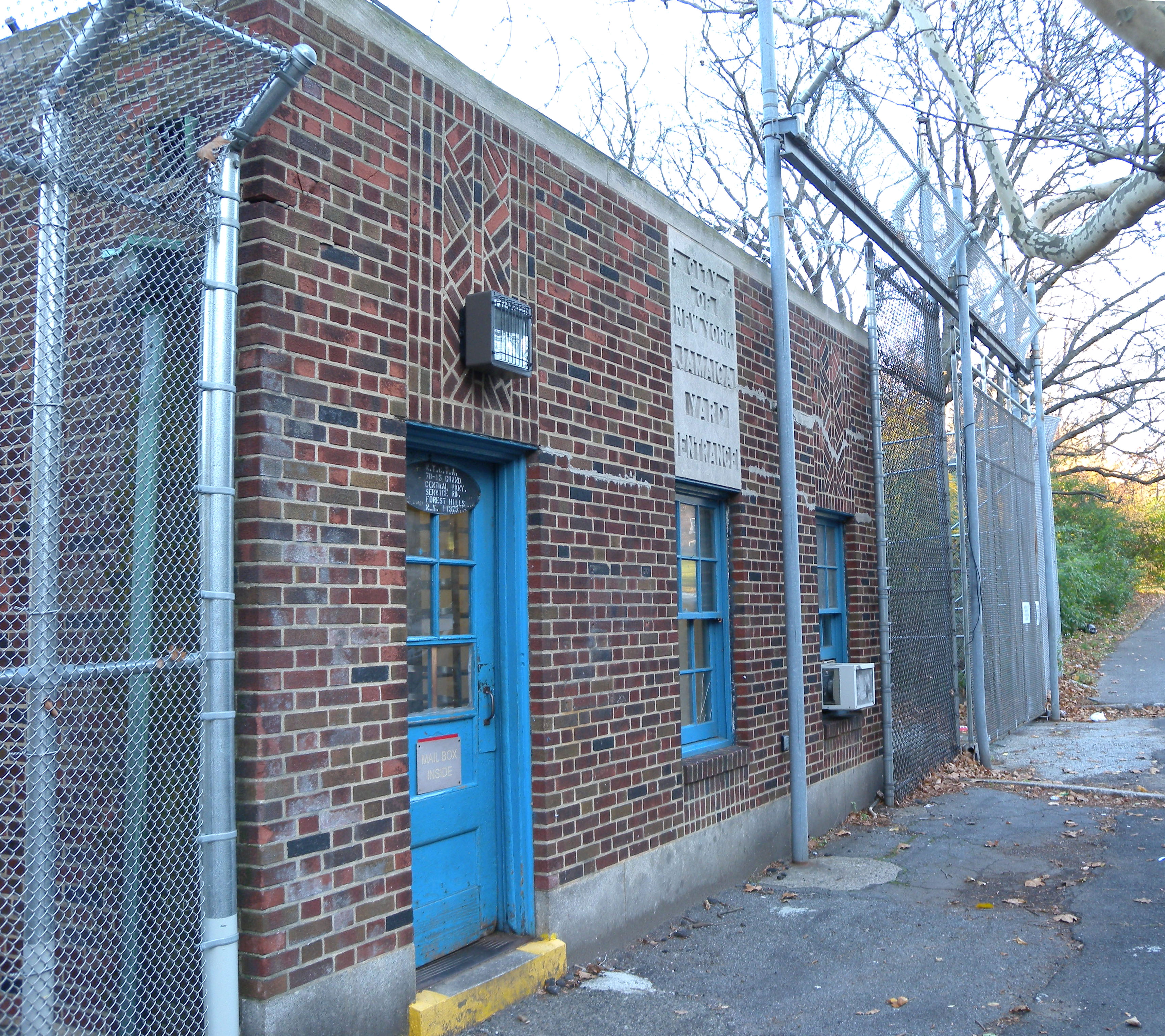 Looking east at employee door of Jamaica Yard of IND subway on a sunny afternoon.